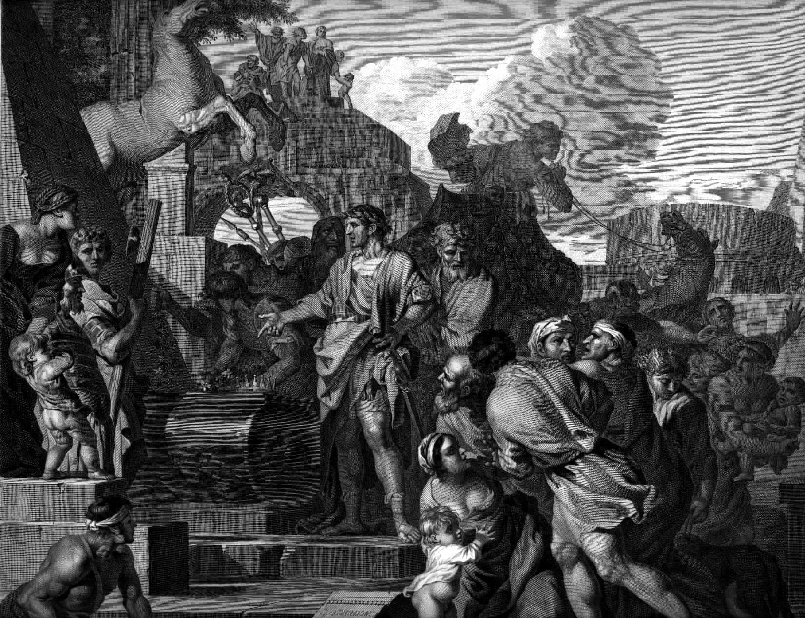 Alexandria old drawings